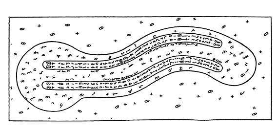 The scheme of chromosome by Koltsov